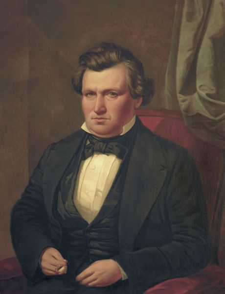 Painted portrait of Wisconsin judge Abram Daniel Smith (1811–1865) by Samuel Marsden Brookes (1816–1892)